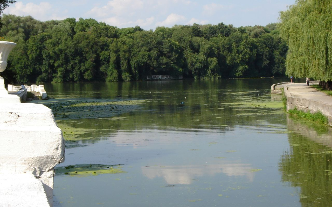 Ploska river flows into Pivdenny Bug.